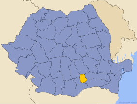 Location of Ilfov County in Romania.